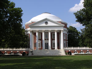 Thomas Jefferson's Rotunda from the Lawn. Taken 2003 by James Maxwell.